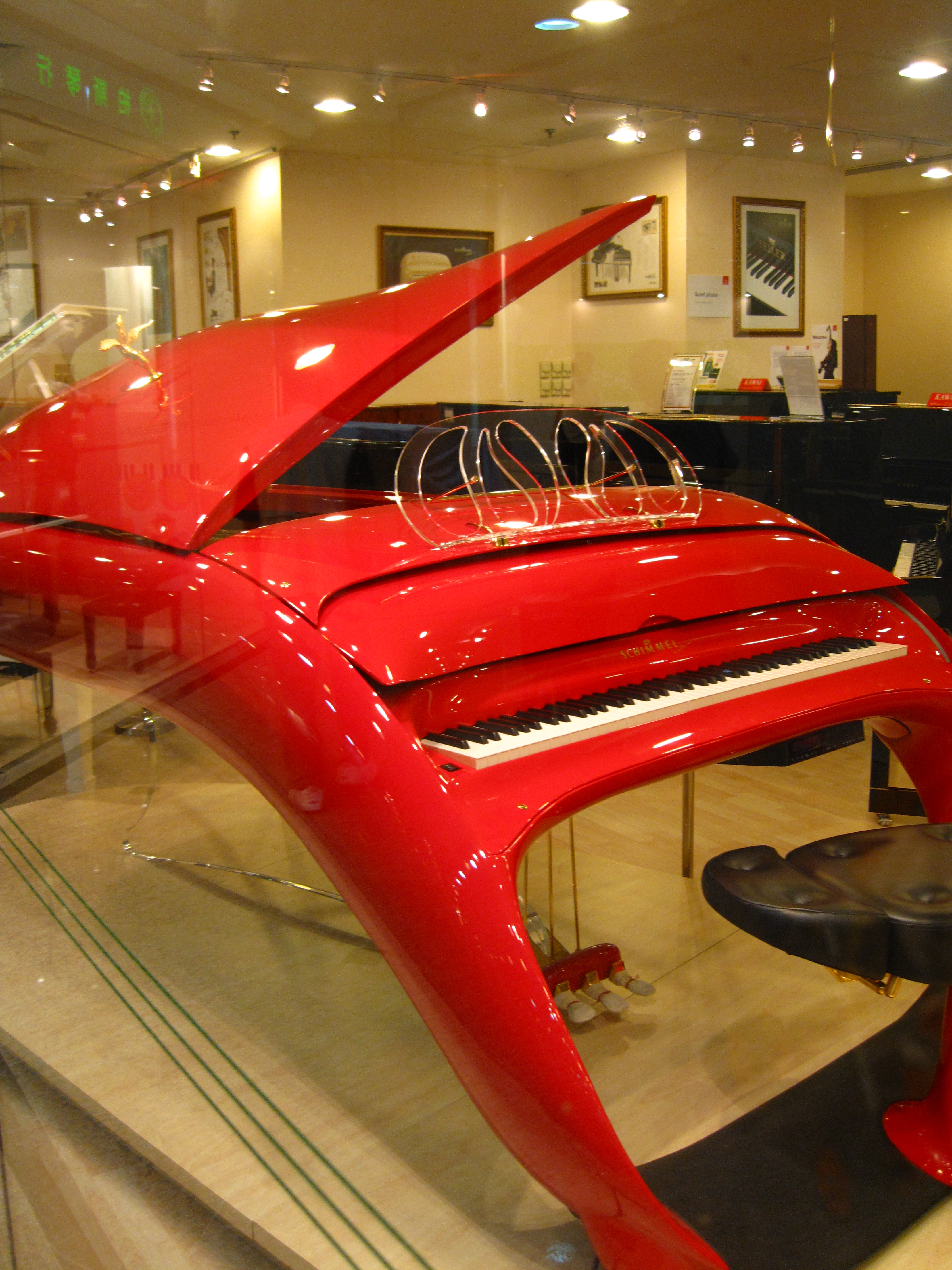 Schimmel K 208 Pegasus. Original caption: "this piano blew my balls off: metaphorically LOOK AT IT. designed for playing Snoop Dogg melodies."